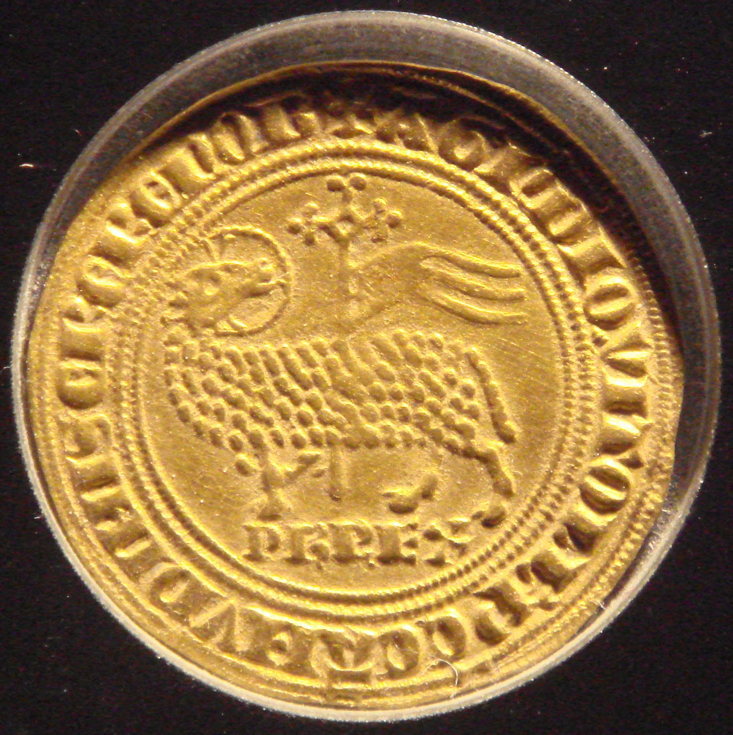 Agnel_de_Philippe_le_Bel_26_January_1311_gold_4010mg